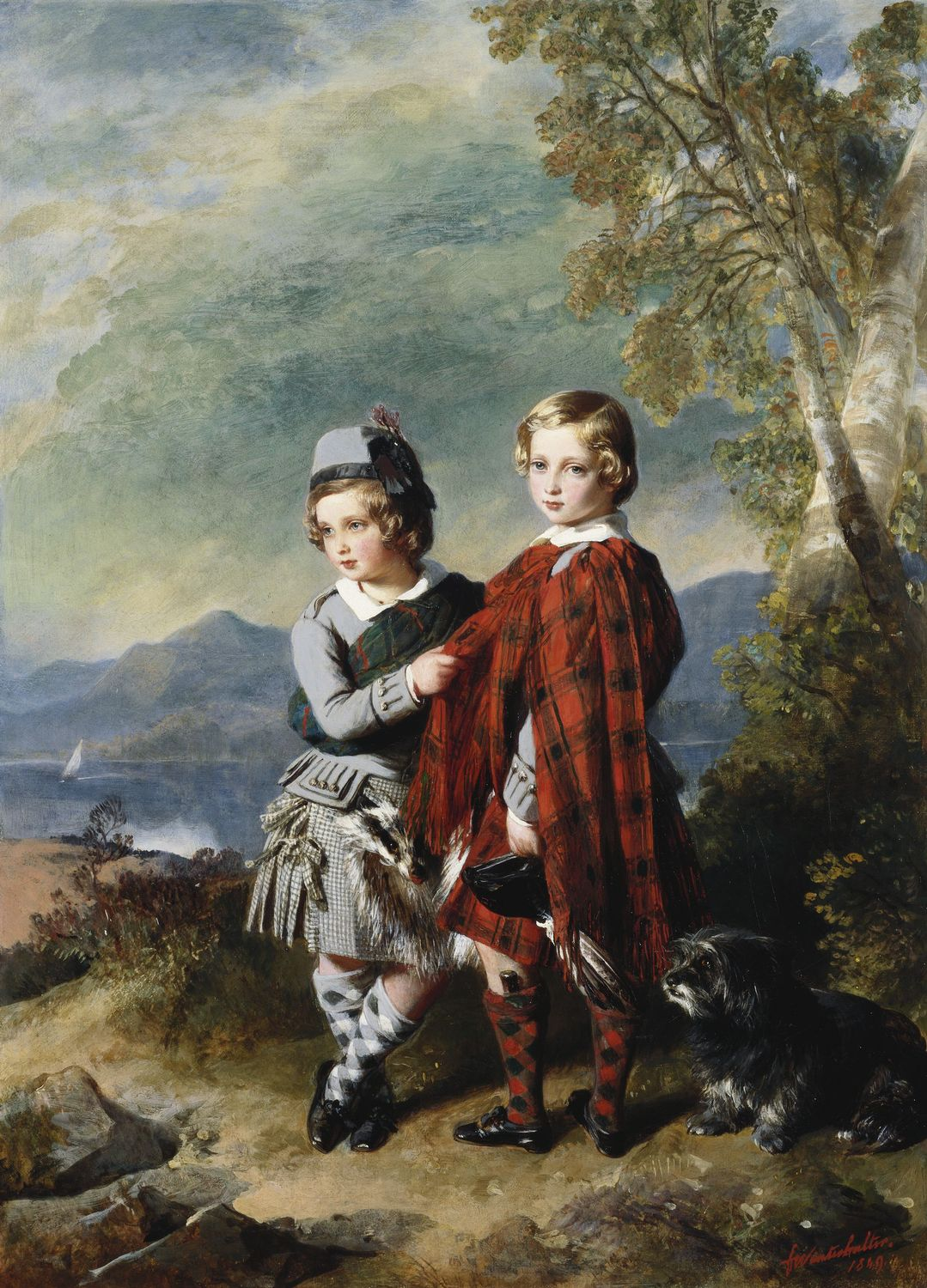 Portraits in Highland dress. Edward Albert to right (?), Alfred to left with a cap and thistle. They both wear jackets, kilts with sporran, tartan socks and shoes, tartan chest sash. A little boy to right. Landscape of mountain